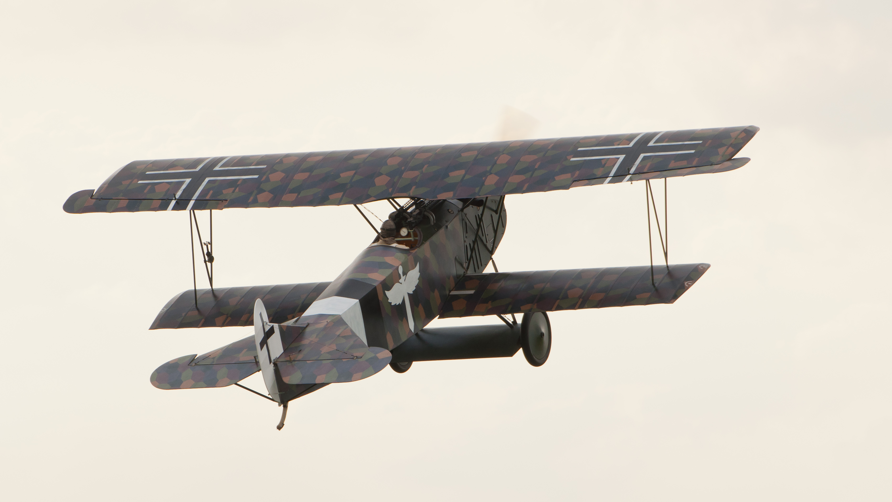 Mikael Carlson's Fokker D VII (reg. SE-XVO, built in 1917/2011). Engine: Daimler D IIIaü.